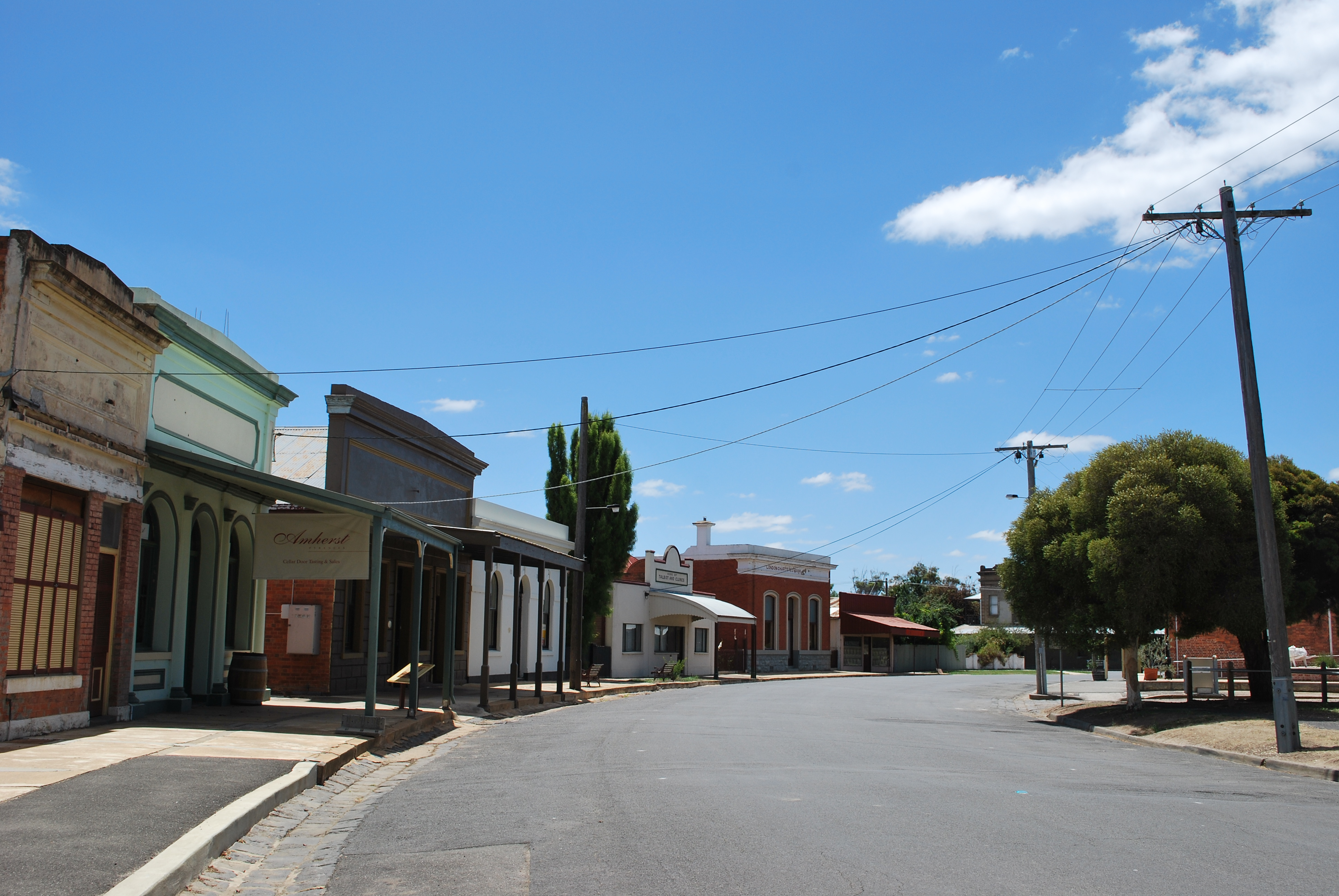 Scandinavian Crescent, the historic main street of Talbot, Victoria